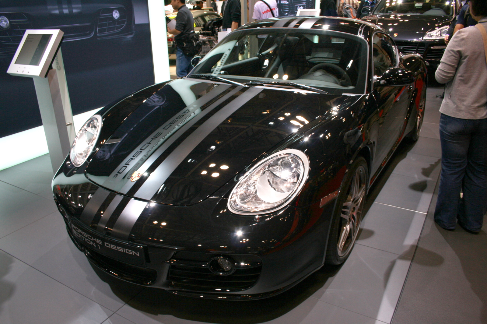 Porsche Cayman S Design Edition in Tokyo motor show